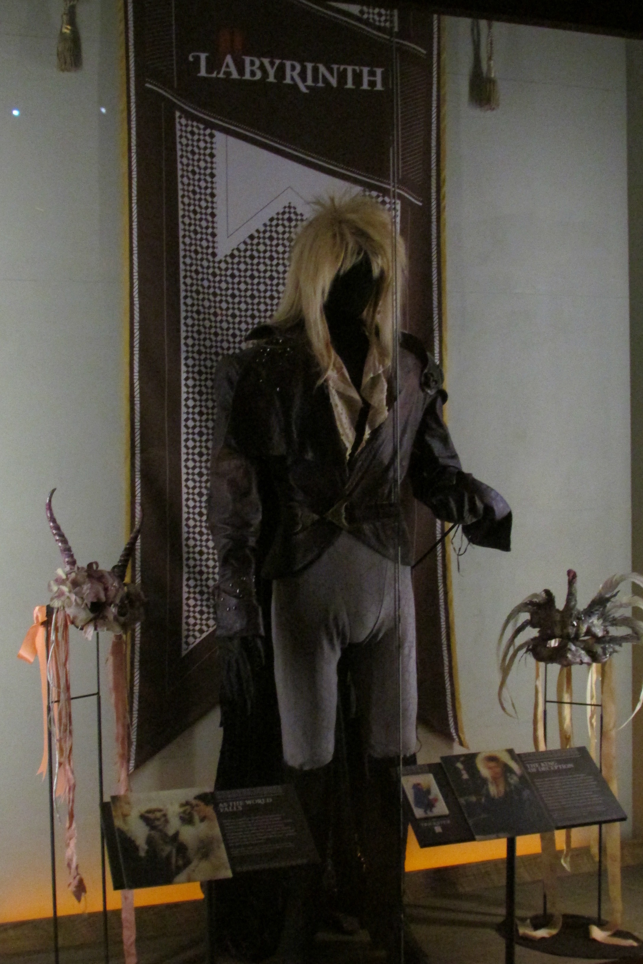 David Bowie's costume for Labrynth at the EMP Museum, Seattle.